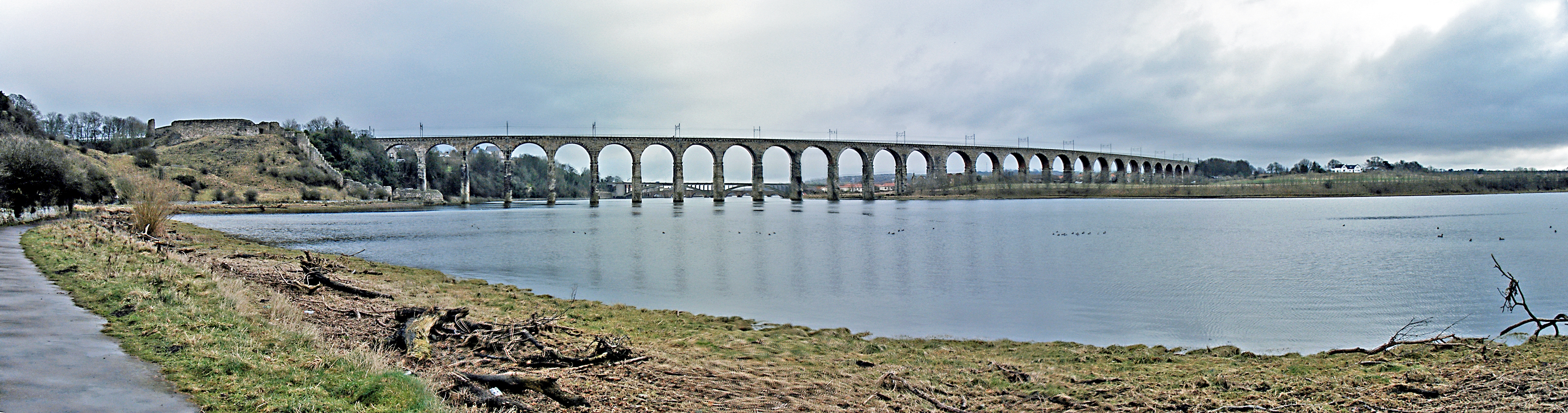 panorama from upriver showing all 28 arches of the Royal Border Bridge over the River Tweed